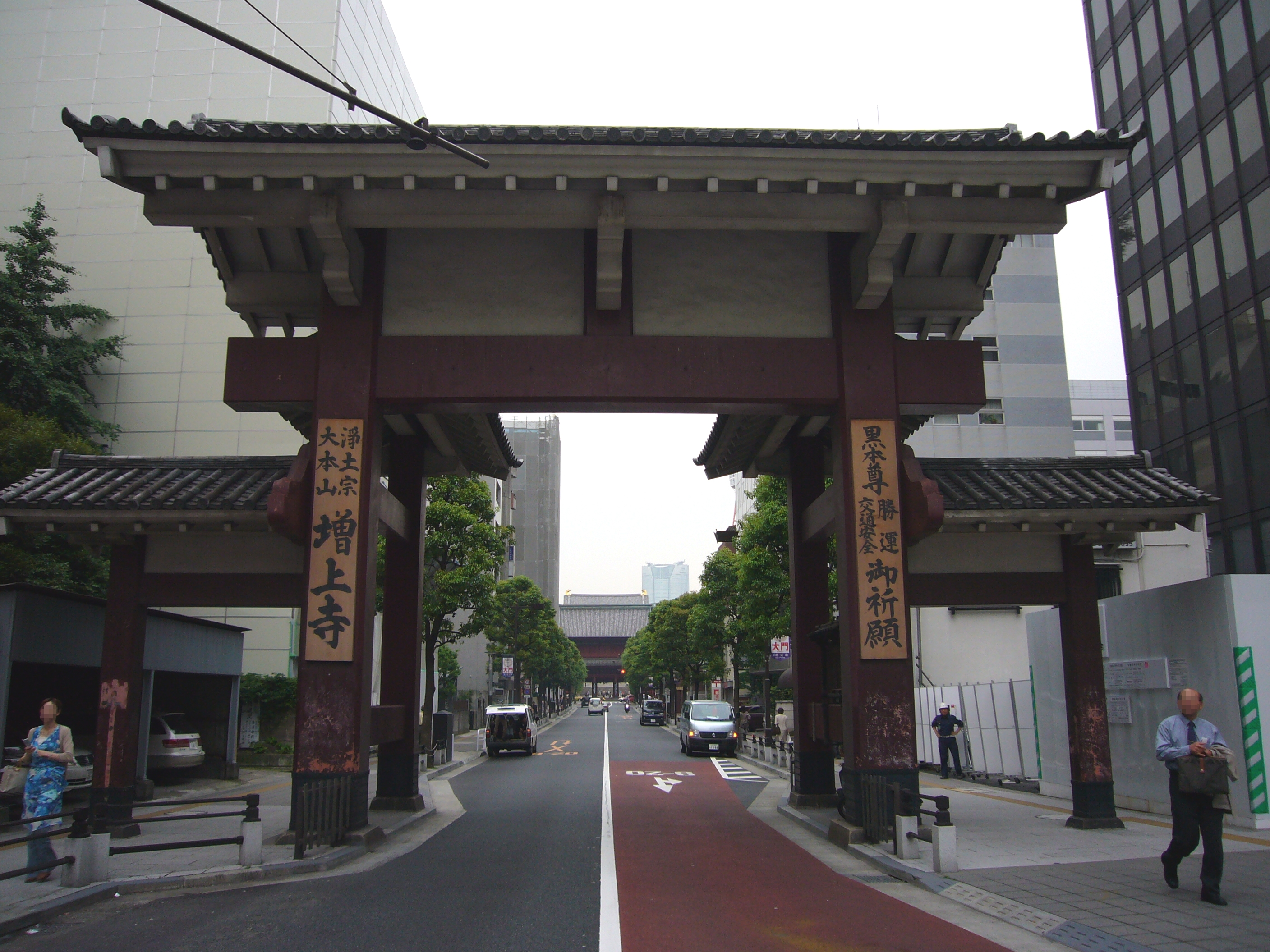 Soumen (Main Entrance) of Zōjō-ji, Tokyo